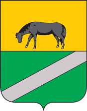 Coat of Arms of Pavlograd Dnepropetrovsk Oblast 1811/08/02